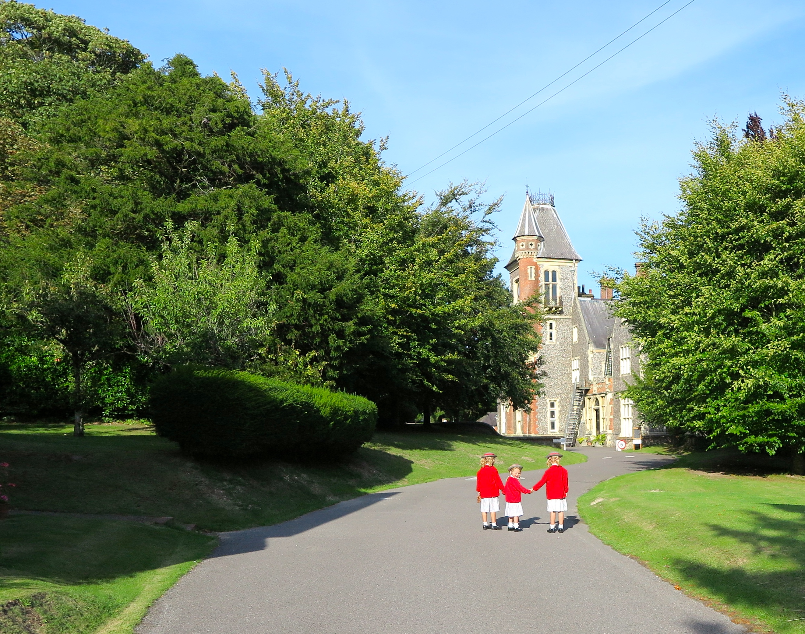 Main driveway to Sompting Abbotts Preparatory School, an independent school near Worthing in West Sussex